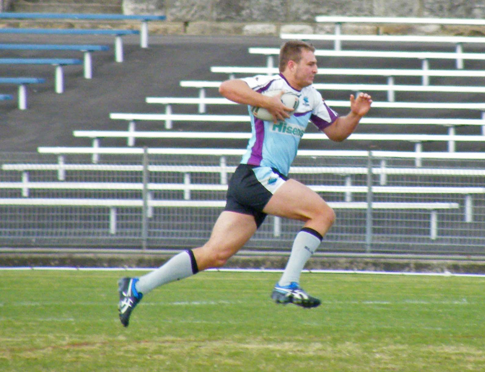 Robbie Rochow